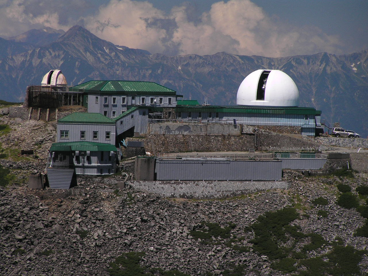 Norikura Solar Observatory、